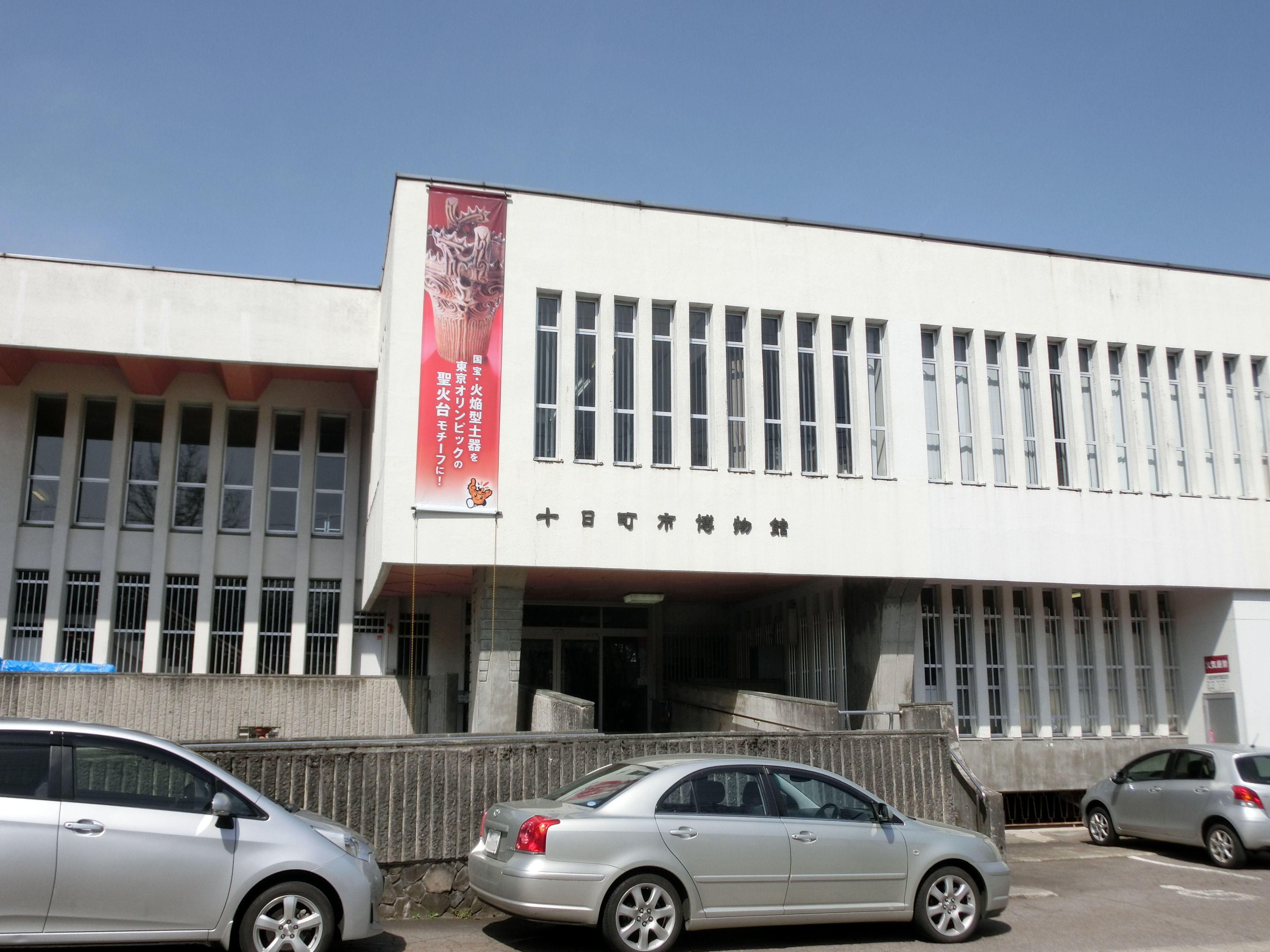 Tokamachi City Museum